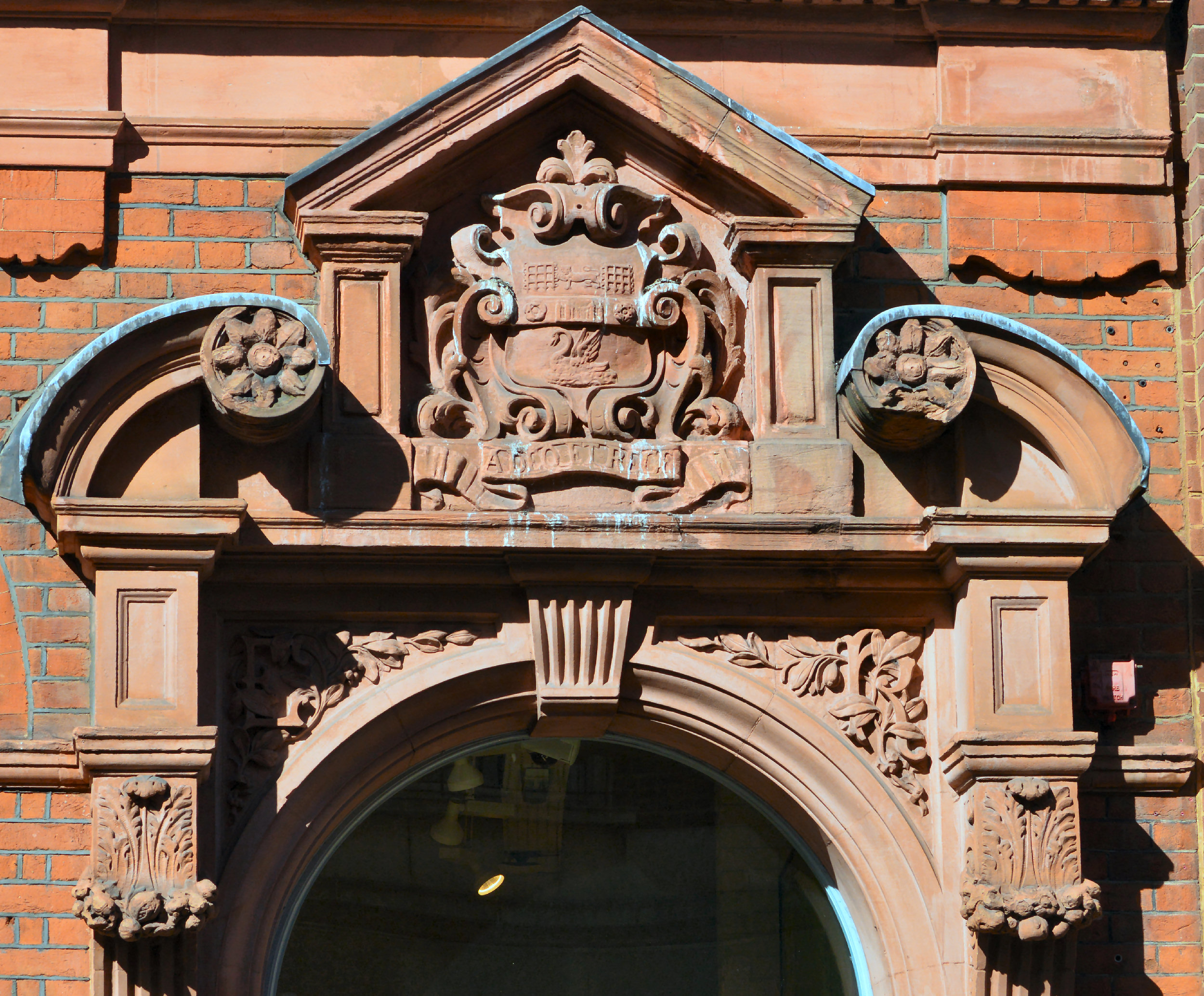 Former Post Office in Richmond, Badge over entrance